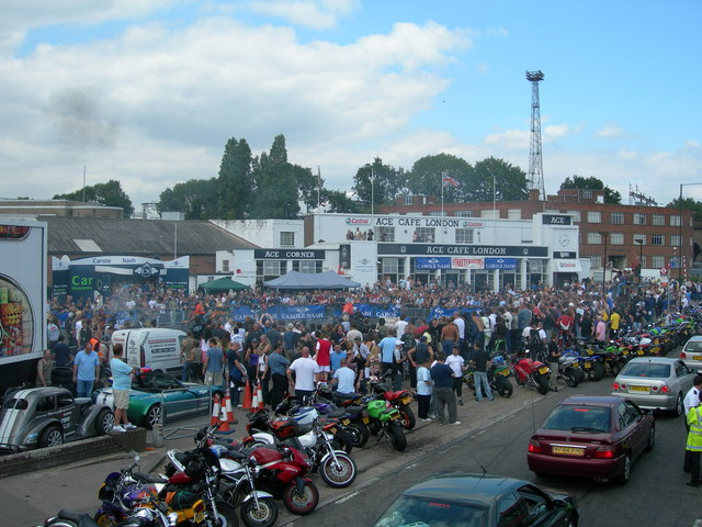 Event at the Ace Cafe London. There was a stunt biking event here today -- lots of people and lots of action. This is a well known bikers' meeting place. Click here to see another angle 215425. Here is a video posted on LiveLeak showing some action.